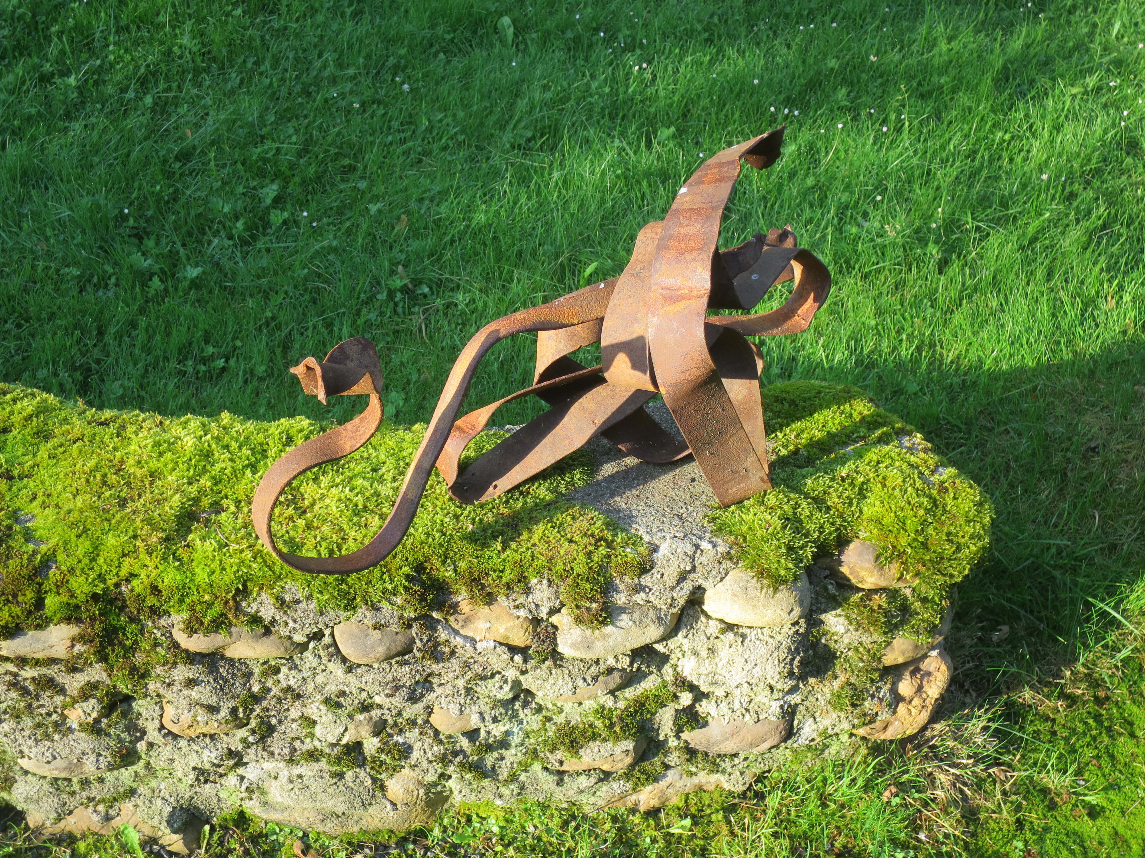 Work of art by Marcus Campbell